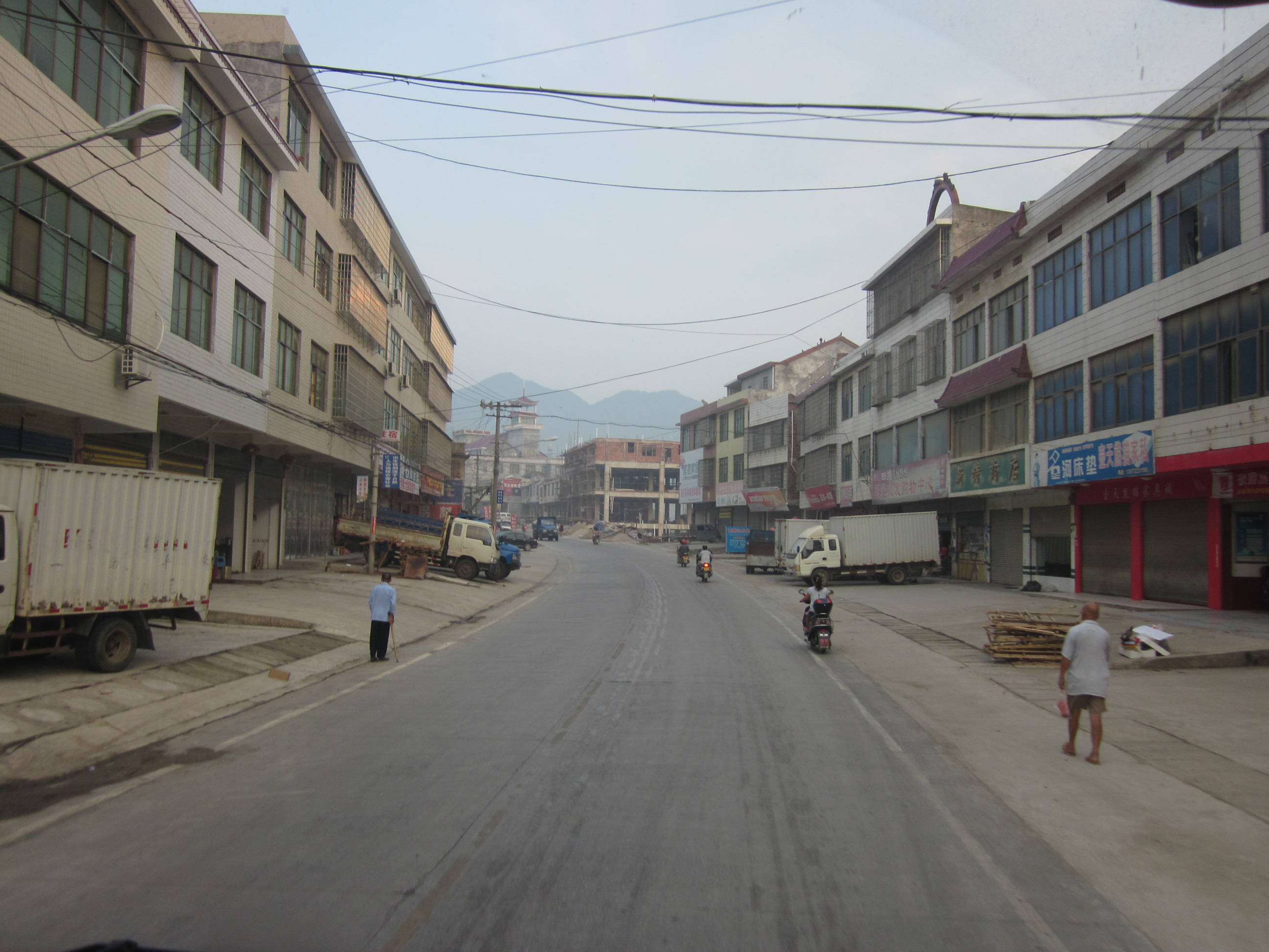 Hutian Town(simplified